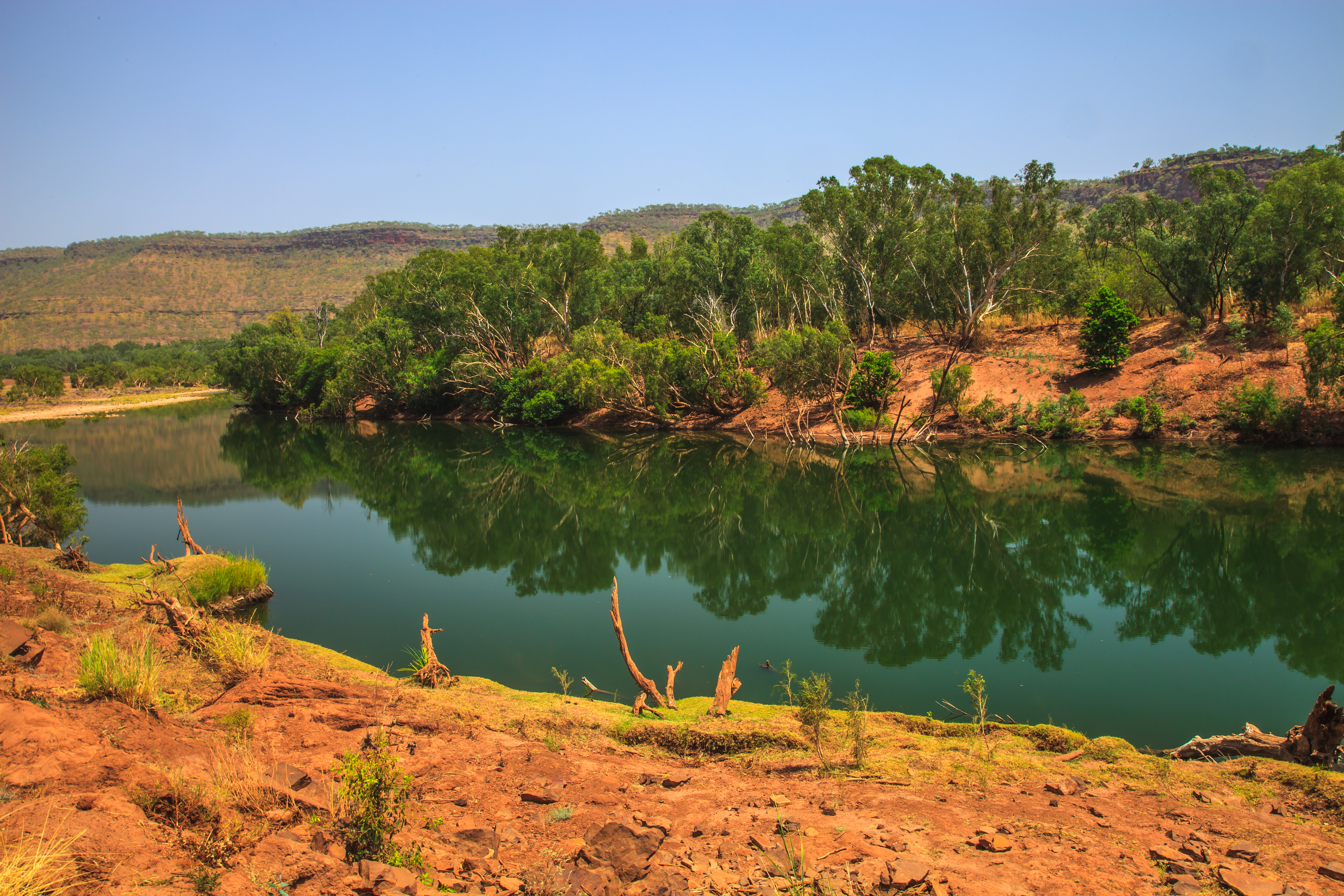 the Mary River, N.T.